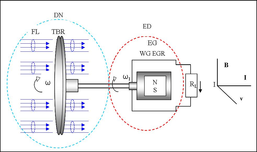 Functional and constructive scheme of the macroscopic power system. Describes the structure and operating principle of the system.